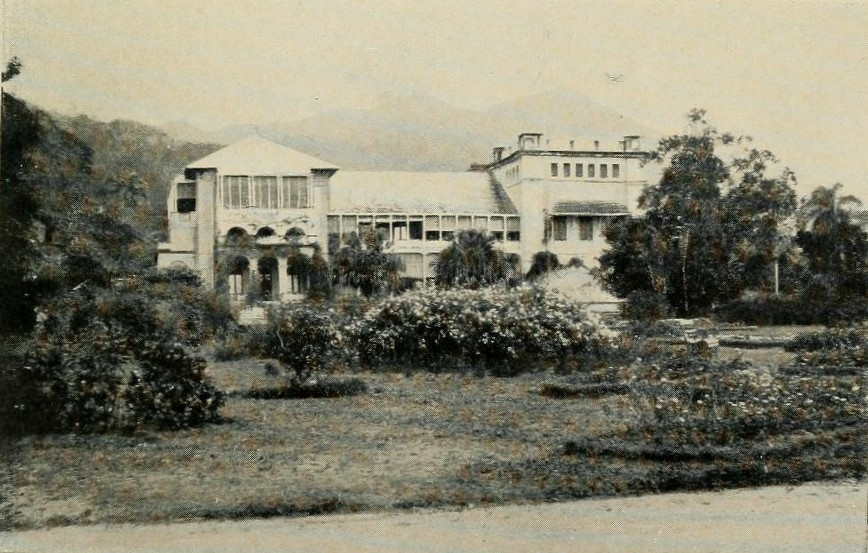 Government House, Trinidad, overlooks the Savannah. Pocketguidetowes00aspi 0267.